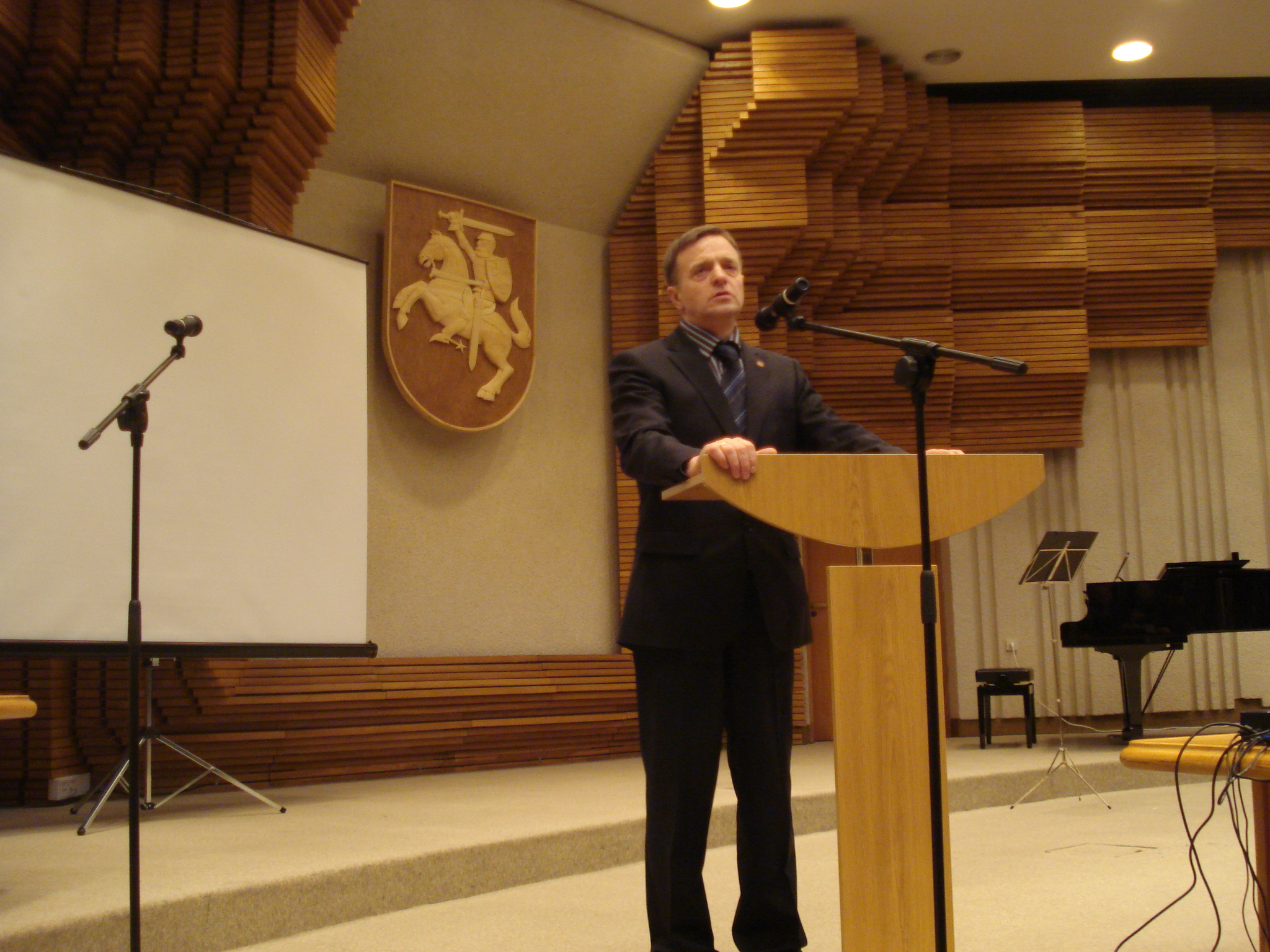 Remigijus Vilkaitis (born on 24 May 1950), actor, minister of culture of Lithuanis since 2008